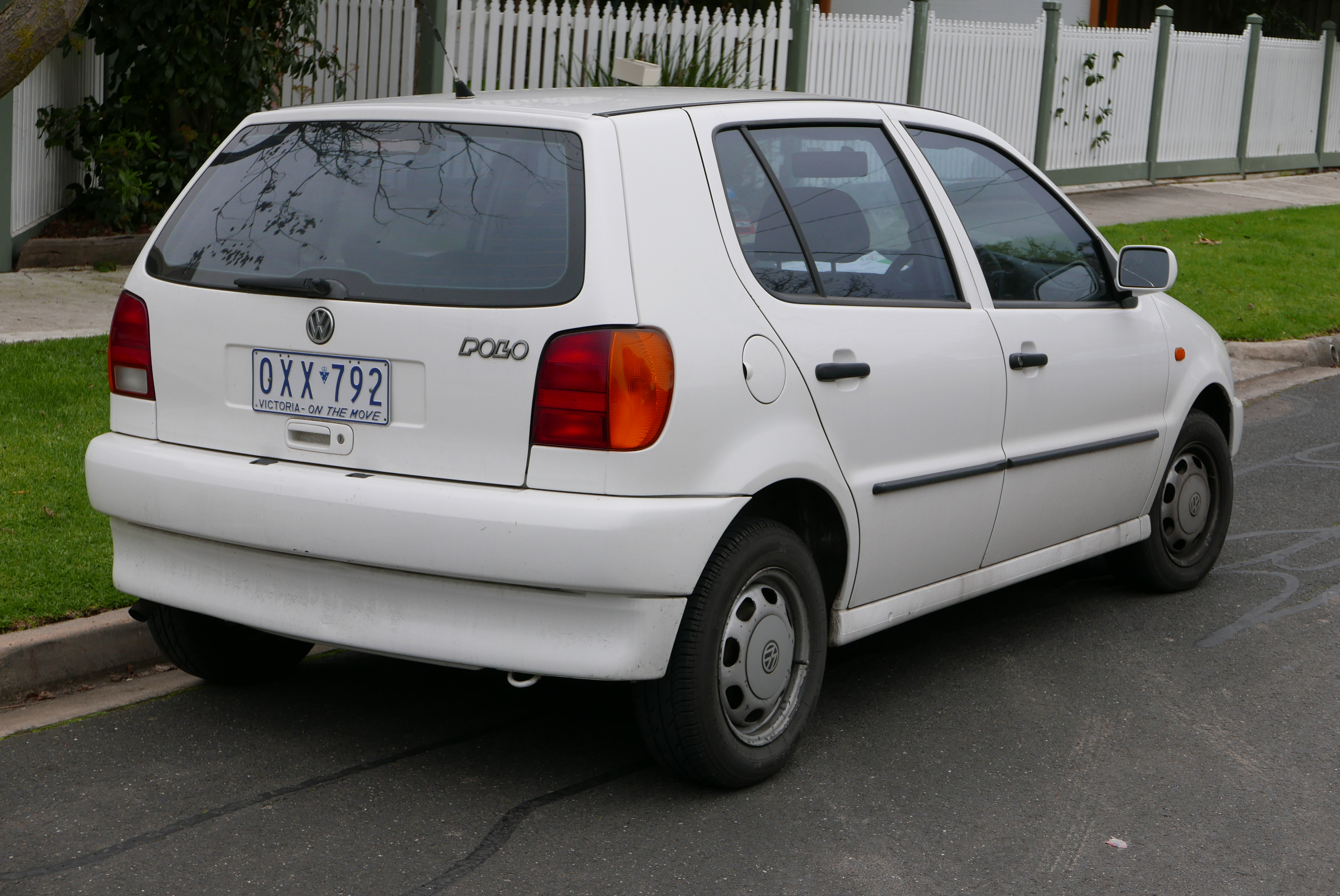 1997 Volkswagen Polo (6N) 5-door hatchback. Photographed in Ivanhoe, Victoria, Australia. Vehicle registration enquiry results Jurisdiction Victoria Registration OXX792 Chassis code WVWZZZ6NZWW004571 Engine code AEE475404 Compliance date 1997-07 Year of manufacture 19981 (not a typo)